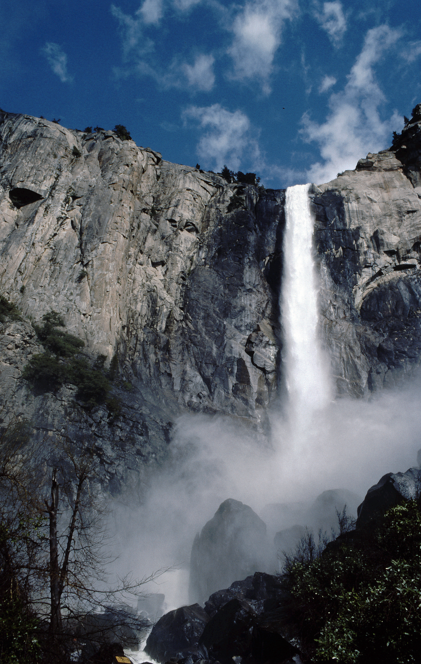 Yosemite-Nationalpark, Bridalveil Fall